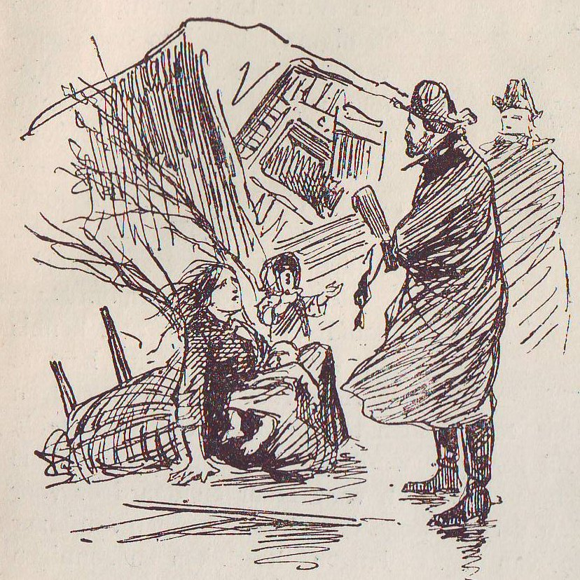 King William III of the Netherlands during the 1861 flood disaster